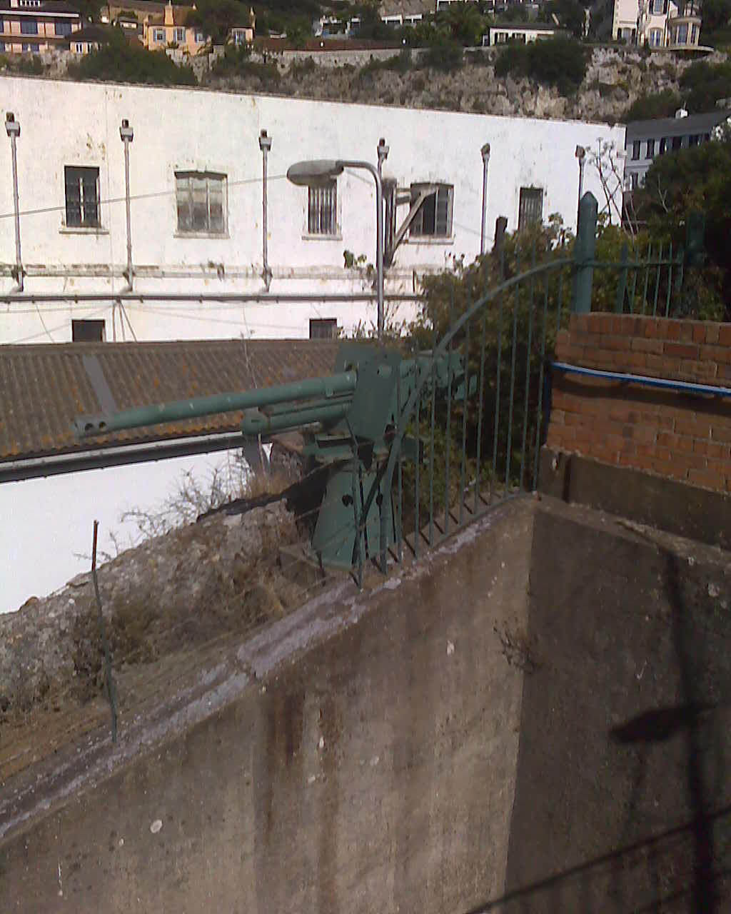 This multi purpose gun was part of the rock defences during the ww2 era and would have had a general role..i presume it was also placed near the entrance to rosia road tunnel to protect the road area in case of enemy advancing by road..This gun was mostly used for coastal defence but could be used for other purposes..It fired a 6 pounder shell.,it wasusually manned by 2 or 3 people..there are also several searchlights emplacements in the vicinity and a bunker used by the crew of the battery. This appears to be a 6-pounder anti-tank gun.